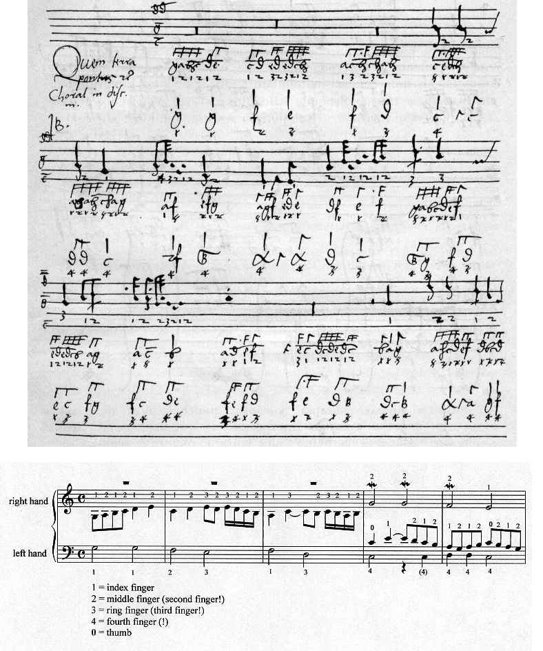 Beginning of "Quem terra, pontus" for Organ